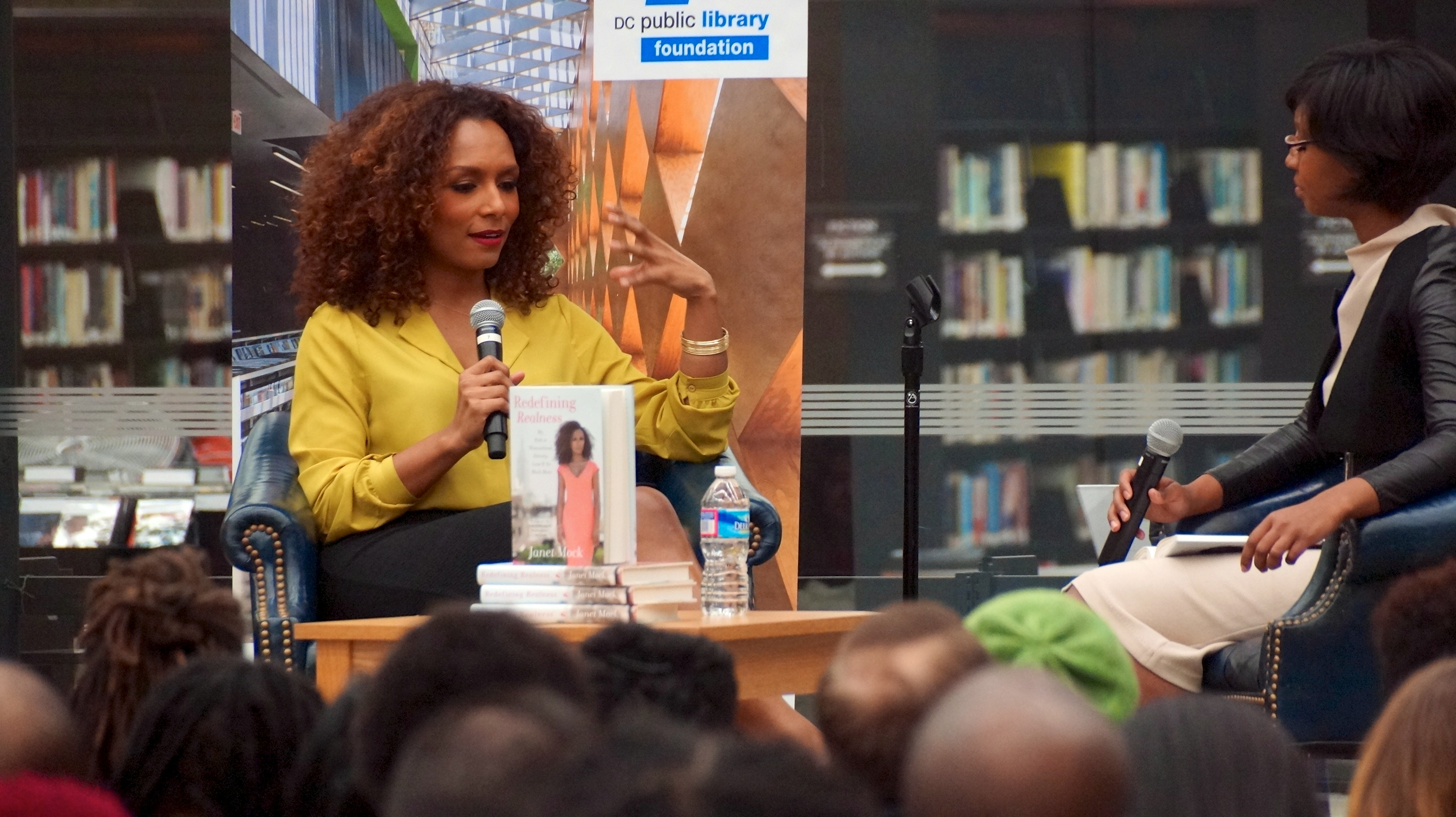 Bestselling author of "Redefining Realness" Janet Mock fills the the Martin Luther King, Jr. library in downtown Washington, DC USA